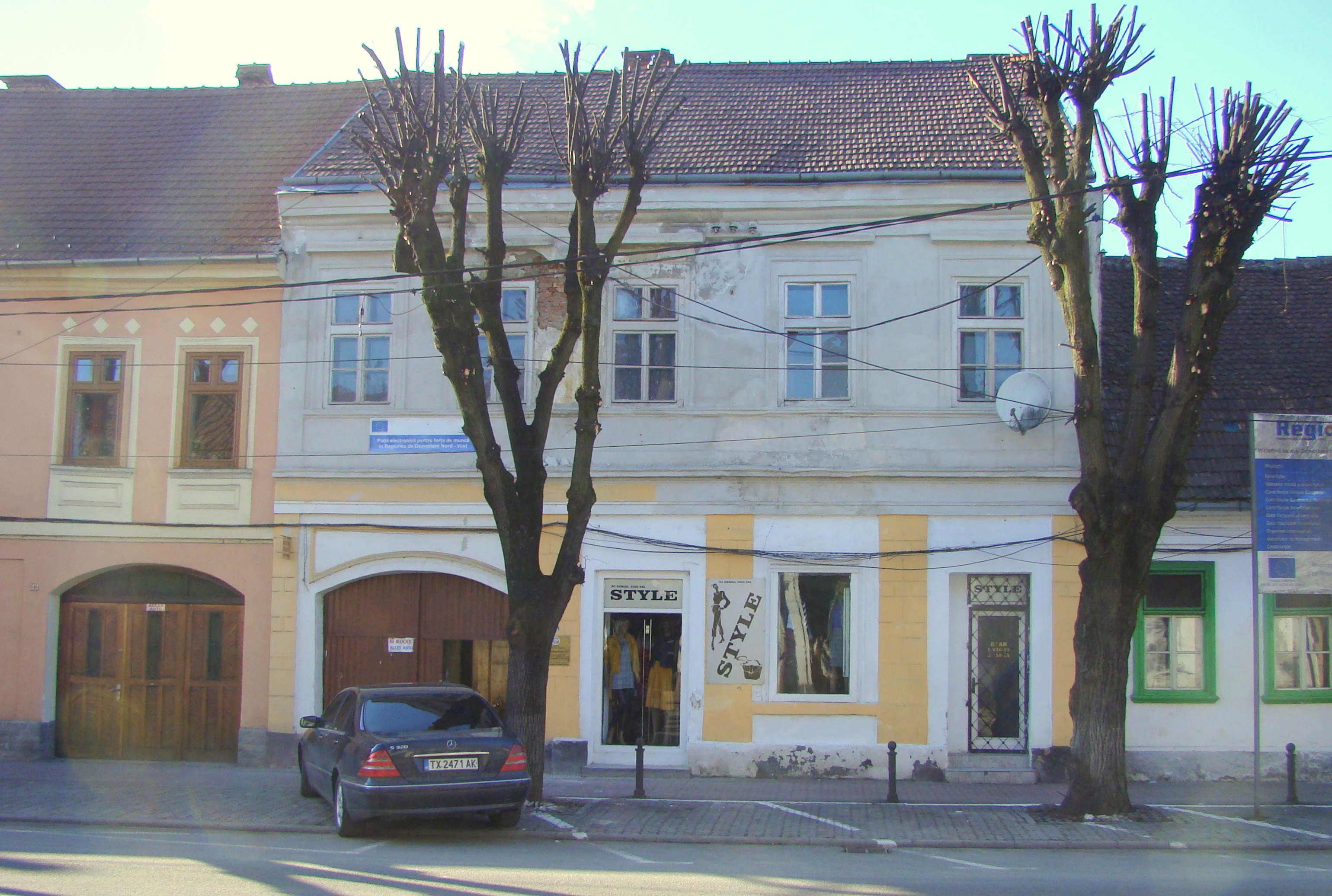 House, historic monument, in Bistriţa, Dornei street, number 35